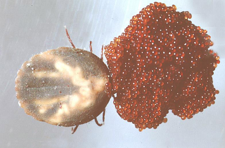 Rhipicephalus appendiculatus female laying batch of eggs.